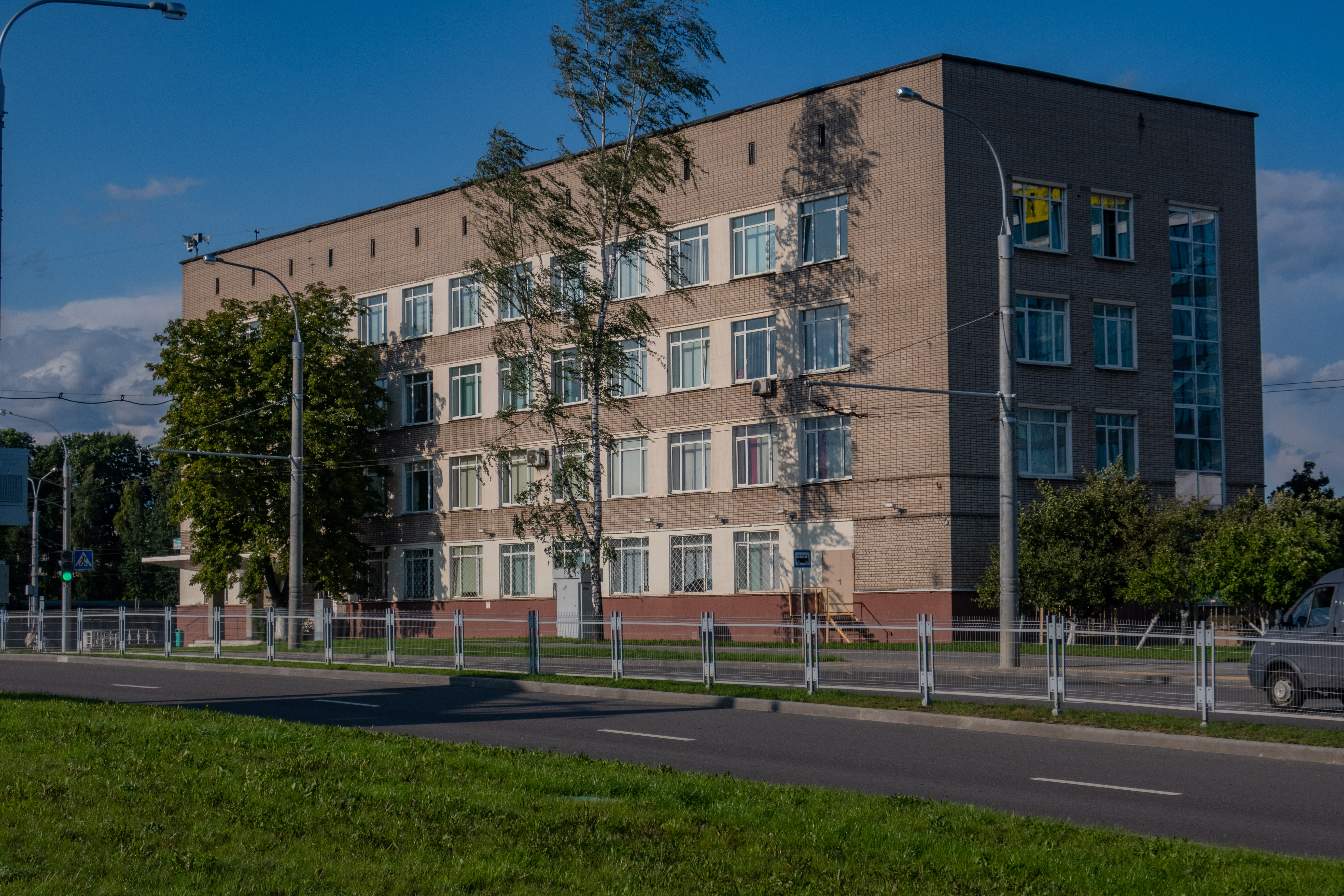 Belarusian state corporation of food industry (Belgospischeprom — Beldziarzhharchpram). Minsk, Belarus